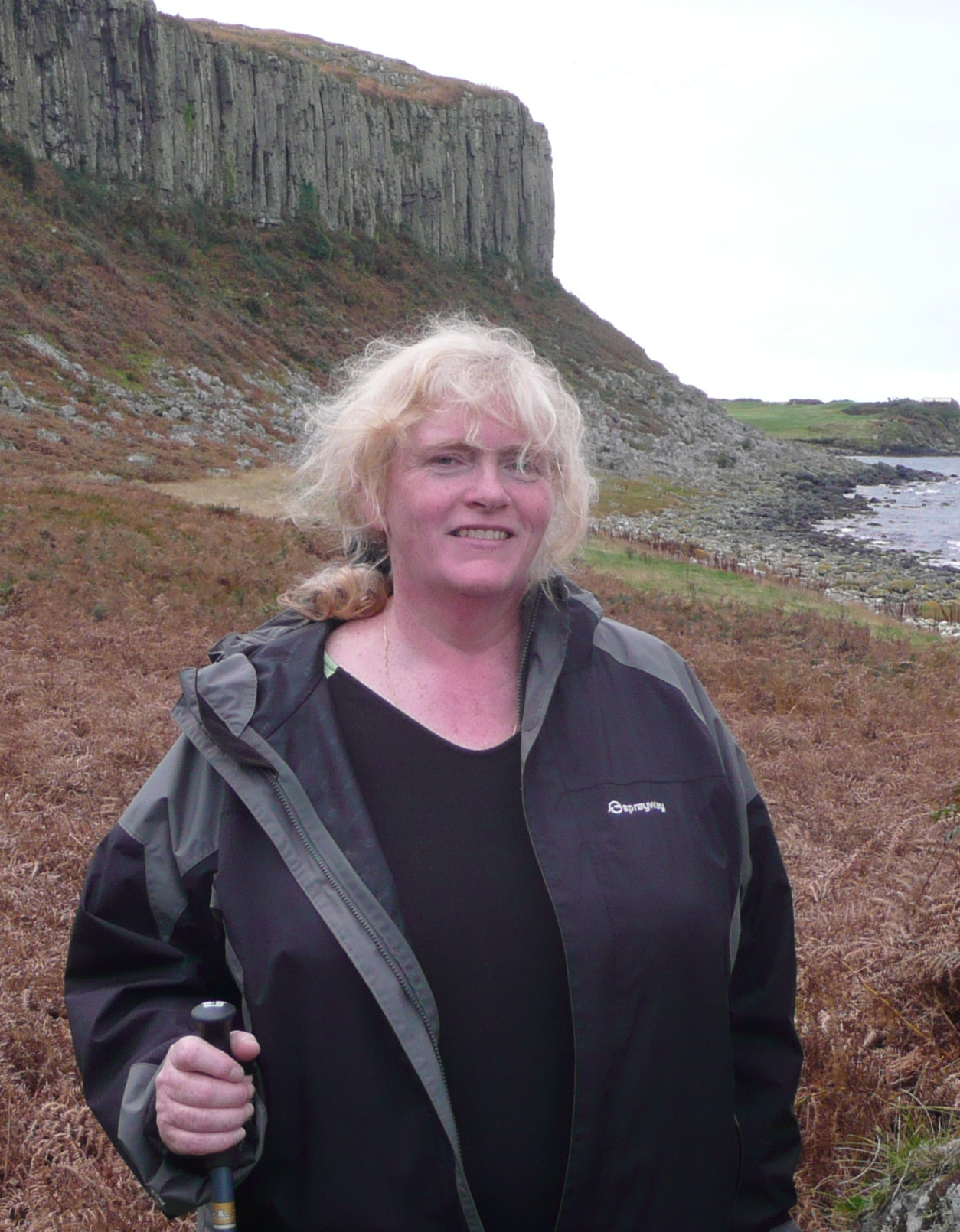 Maeve Sherlock on the Isle of Arran